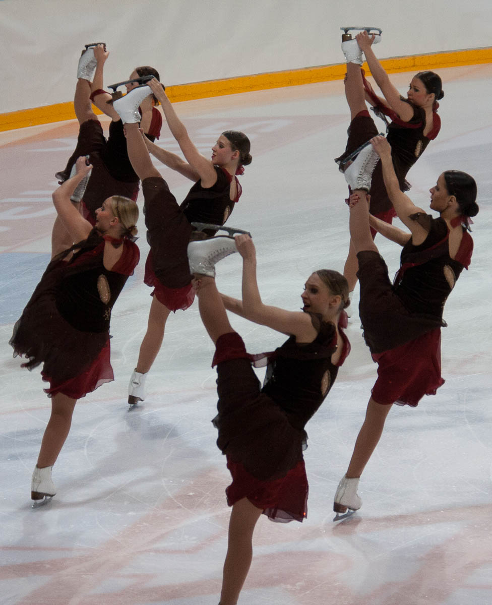 Team Unique, 2nd Qualifiers for Finnish Championships, Helsinki Finland